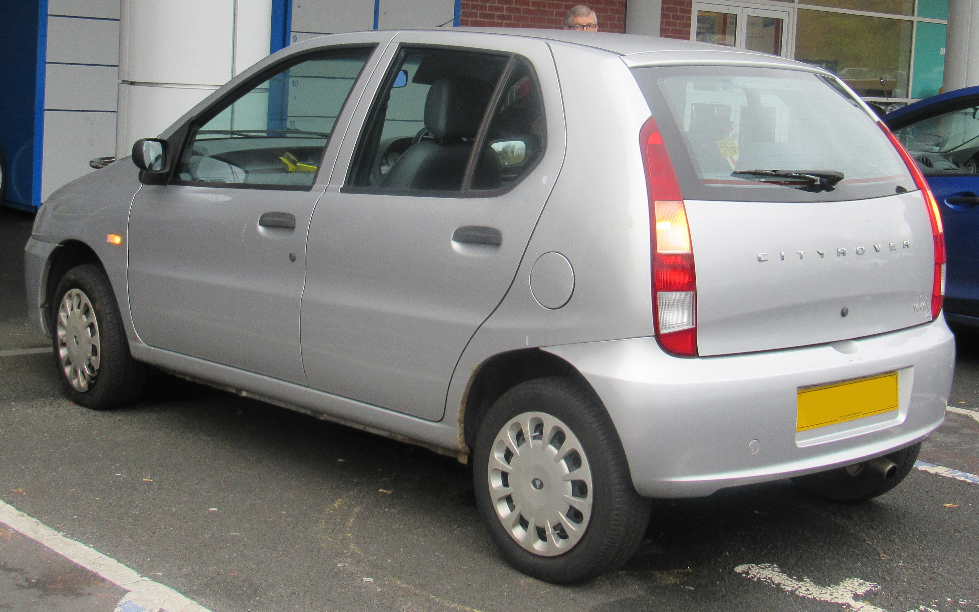 2004 Rover CityRover 1.4 Rear Taken in Warwick